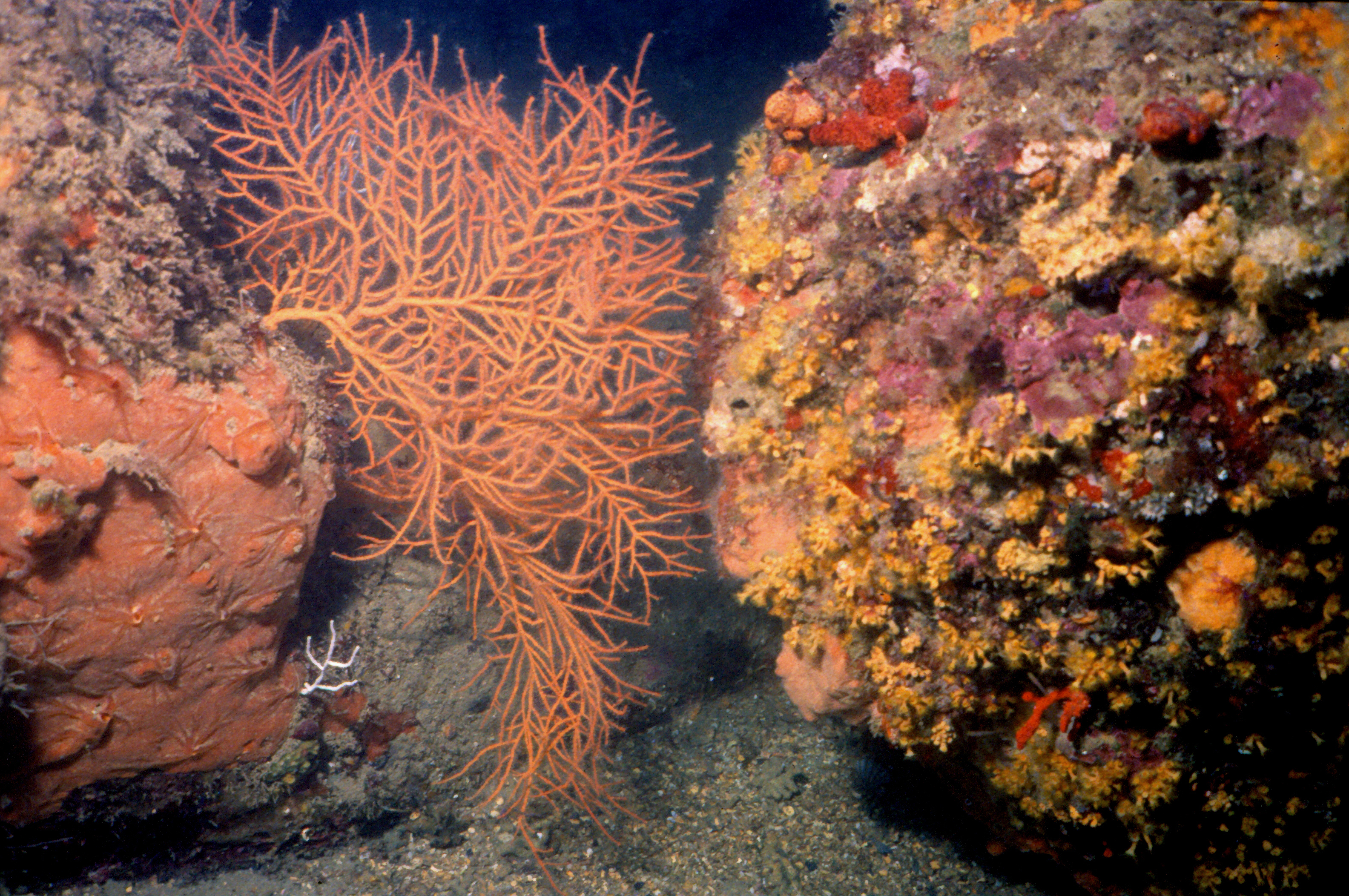 Leptogorgia sarmentosa (Esper, 1791), Spirastrella cunctatrix Schmidt, 1868, Parazoanthus axinellae (Schmidt, 1862), Corallium rubrum (Linnaeus, 1758), Alcyonium acaule Marion, 1878 - Banyuls-sur-Mer, Sec-de-Rédéris : 07/94